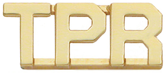 This is an image made to represent the collar insignia worn by Lousisana State Troopers. I made this image using Photoshop.